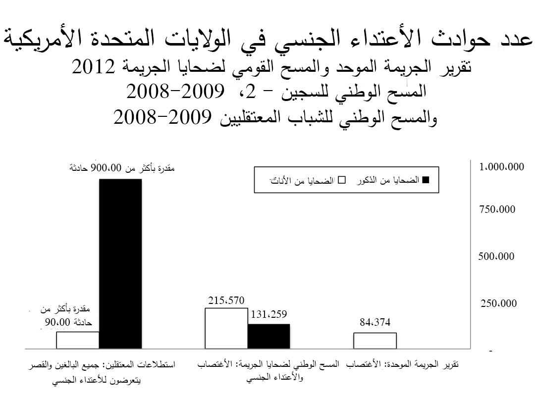 Chart I developed from data contained in a peer reviewed journal article, "The Sexual Victimization of Men in America: New Data Challenge Old Assumptions" by Lara Stemple, JD, and Ilan H. Meyer, PhD, which appeared in June 2014, Vol 104, No. 6 of the American Journal of Public Health Other information From article, "The Sexual Victimization of Men in America: New Data Challenge Old Assumptions" by Lara Stemple, JD, and Ilan H. Meyer